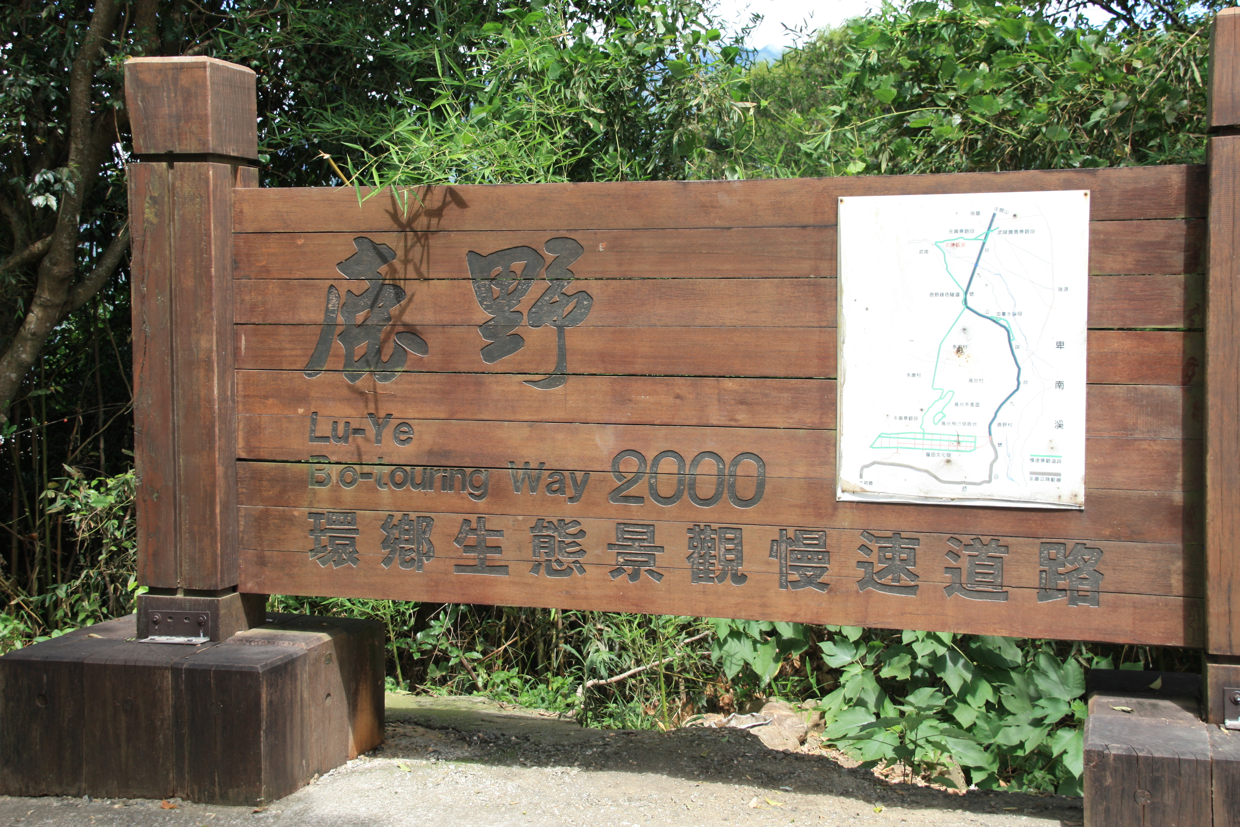 Taitung CountyLuye Township